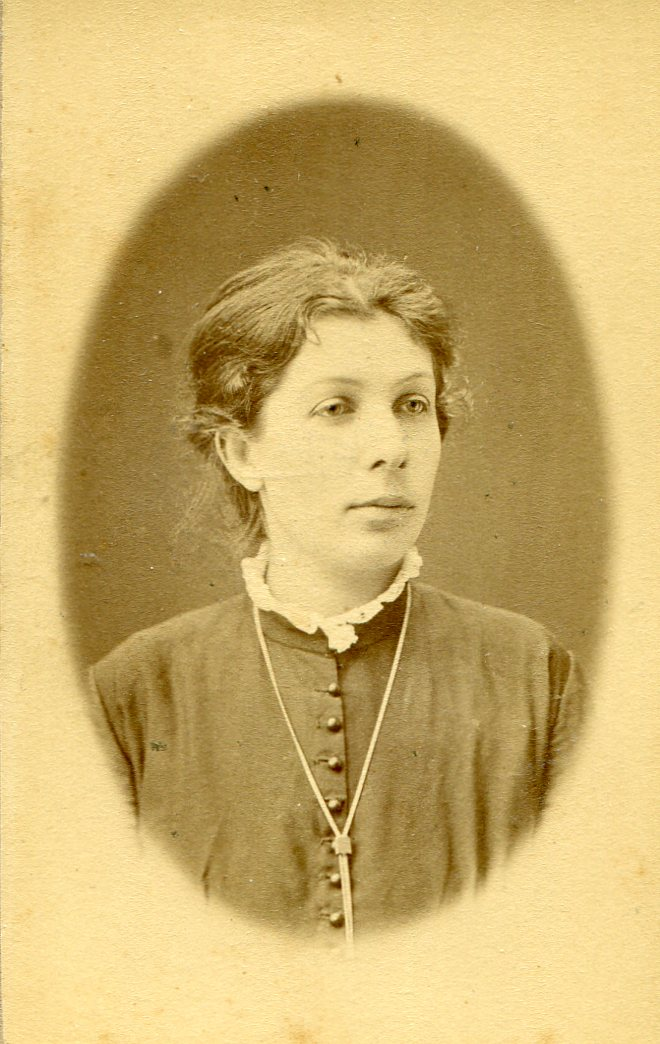 Olga Nikolaevna Yakushkina nee von Rutzen